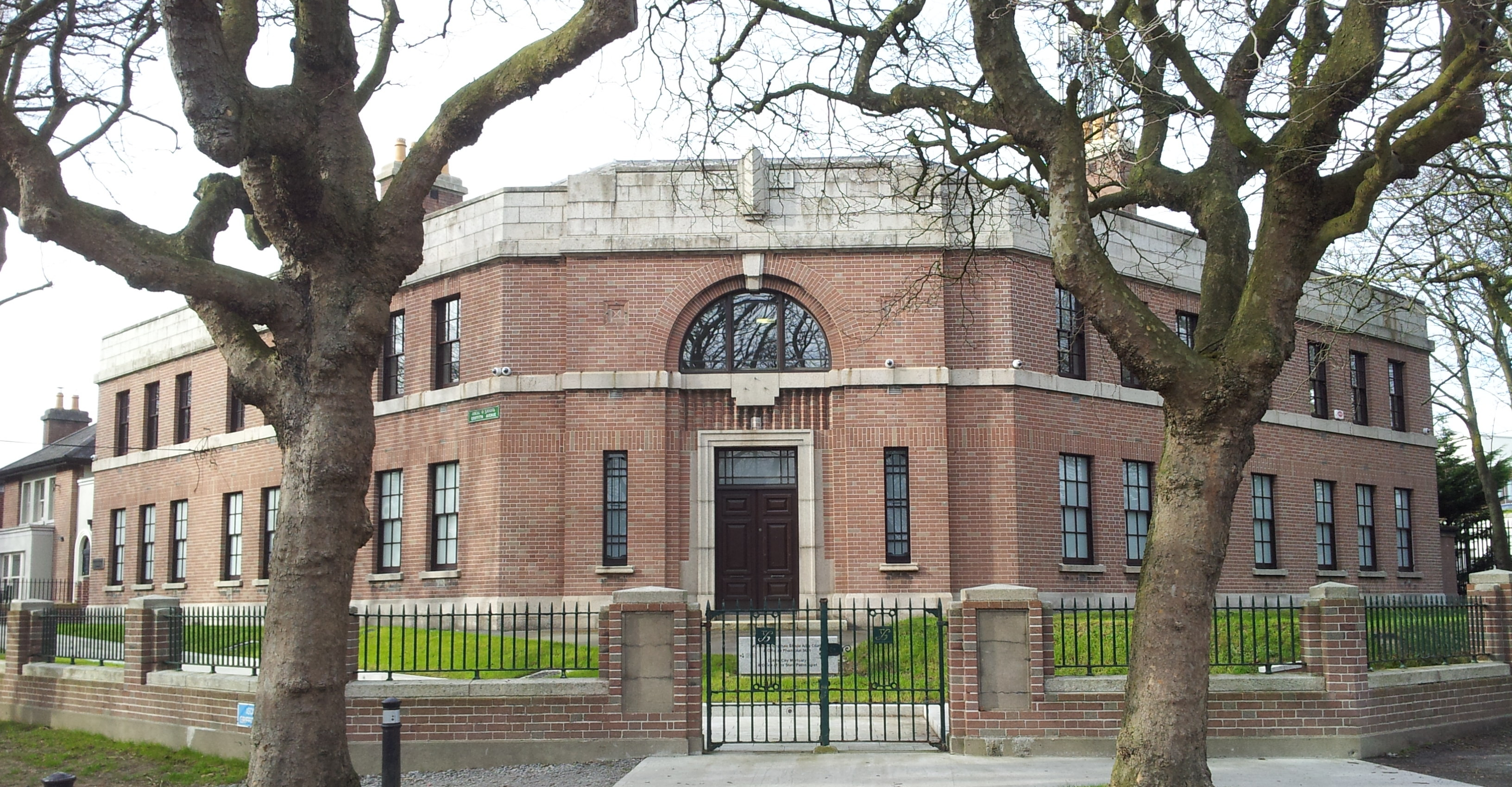 Dublin City Mortuary and State Pathologist's Office, Whitehall, Dublin, Ireland.